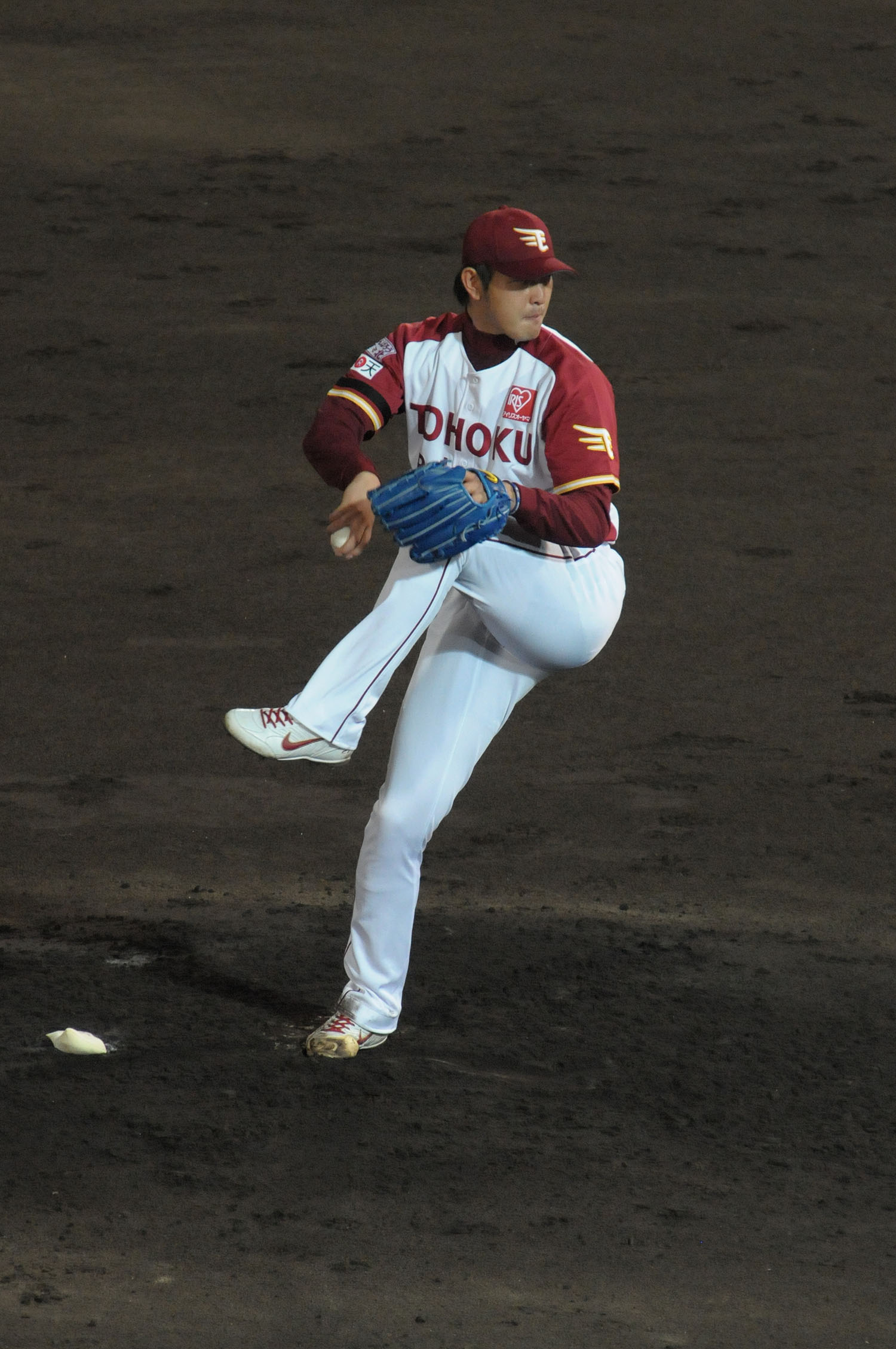 Hisashi Iwakuma, pitcher of the Tohoku Rakuten Golden Eagles, at Akita Prefectural Baseball Stadium.